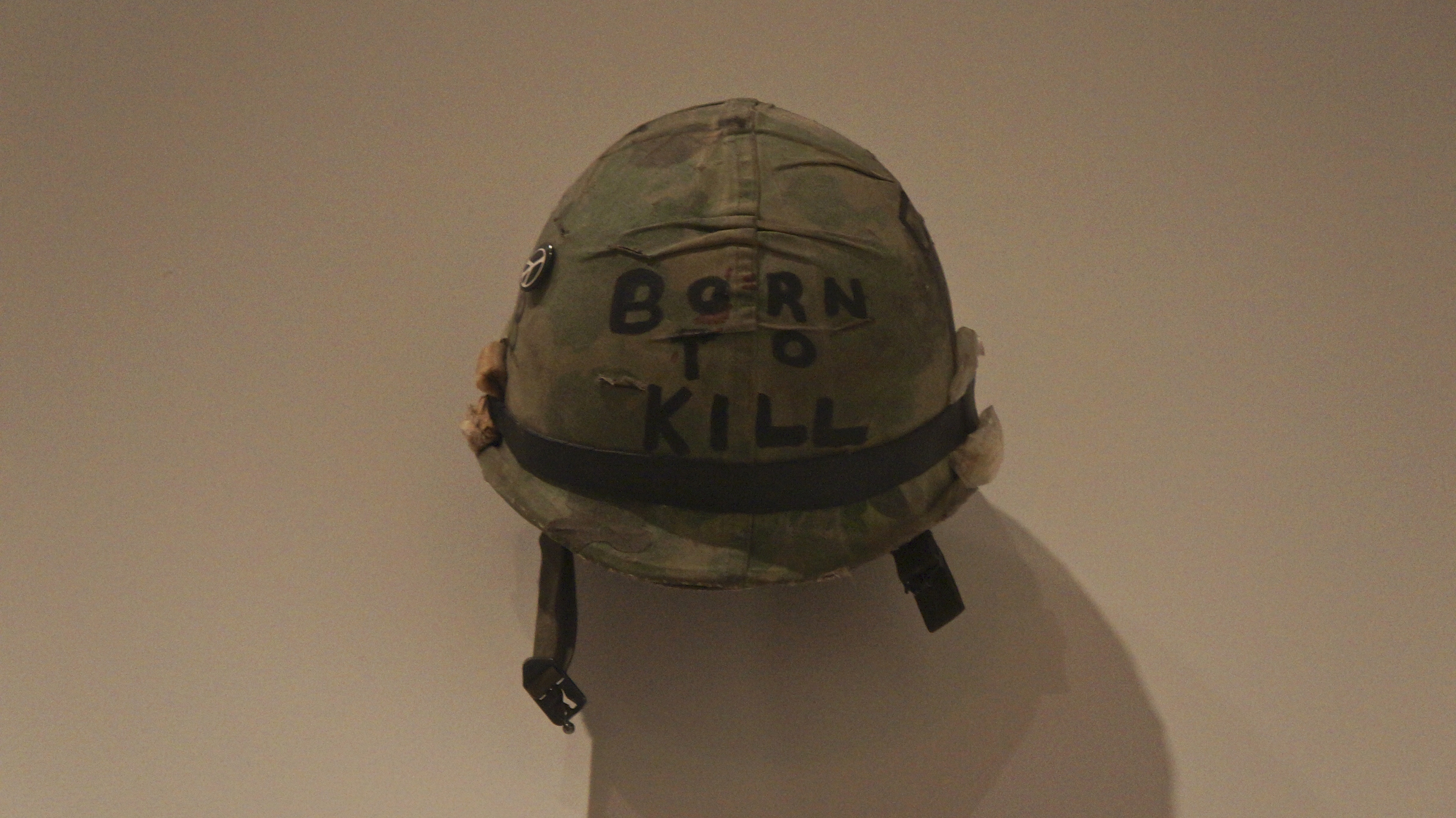 displayed at Stanley Kubrick: The Exhibit, Los Angeles County Museum of Art.